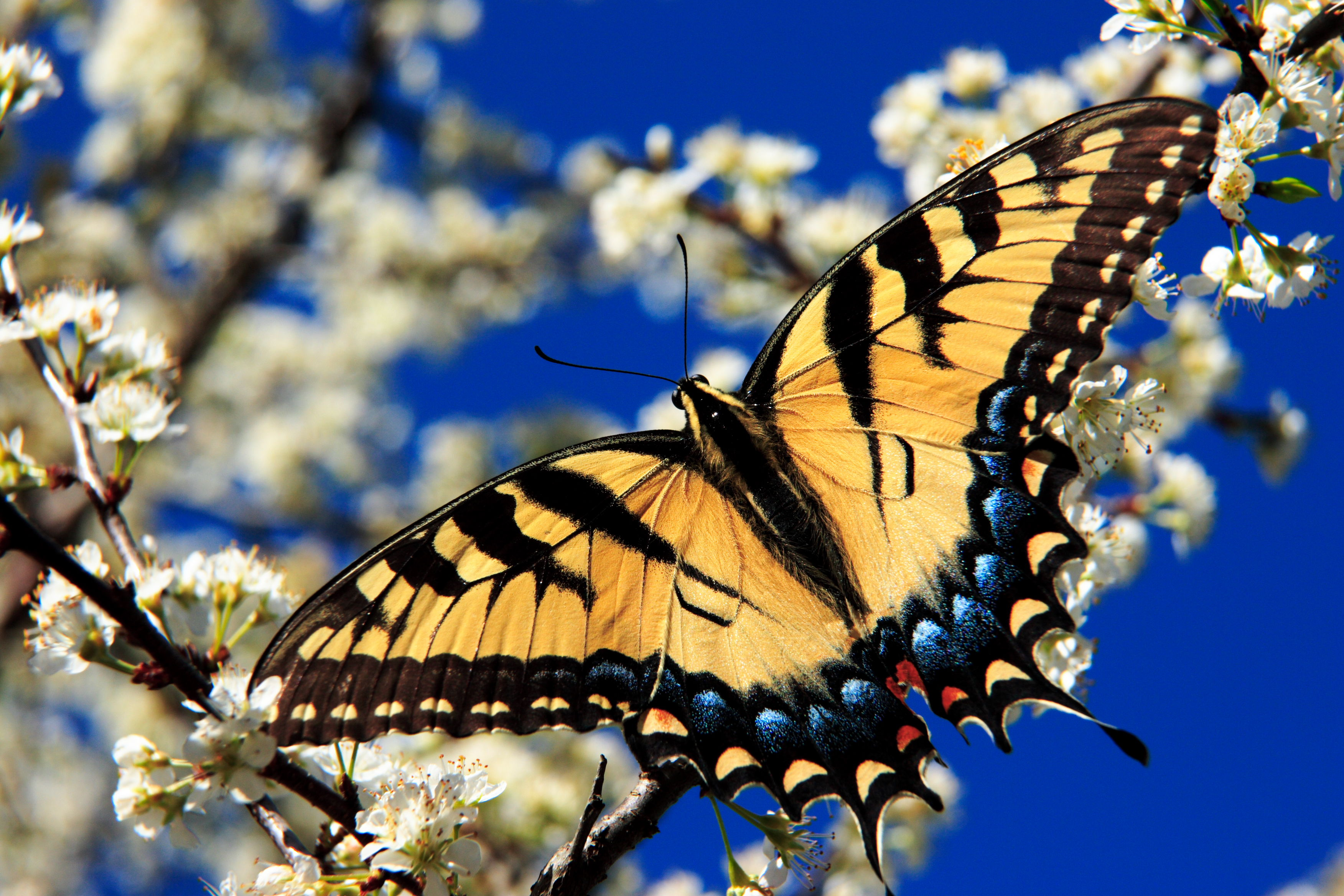 Papilio sp., probably Papilio glaucus (Eastern tiger swallowtail).